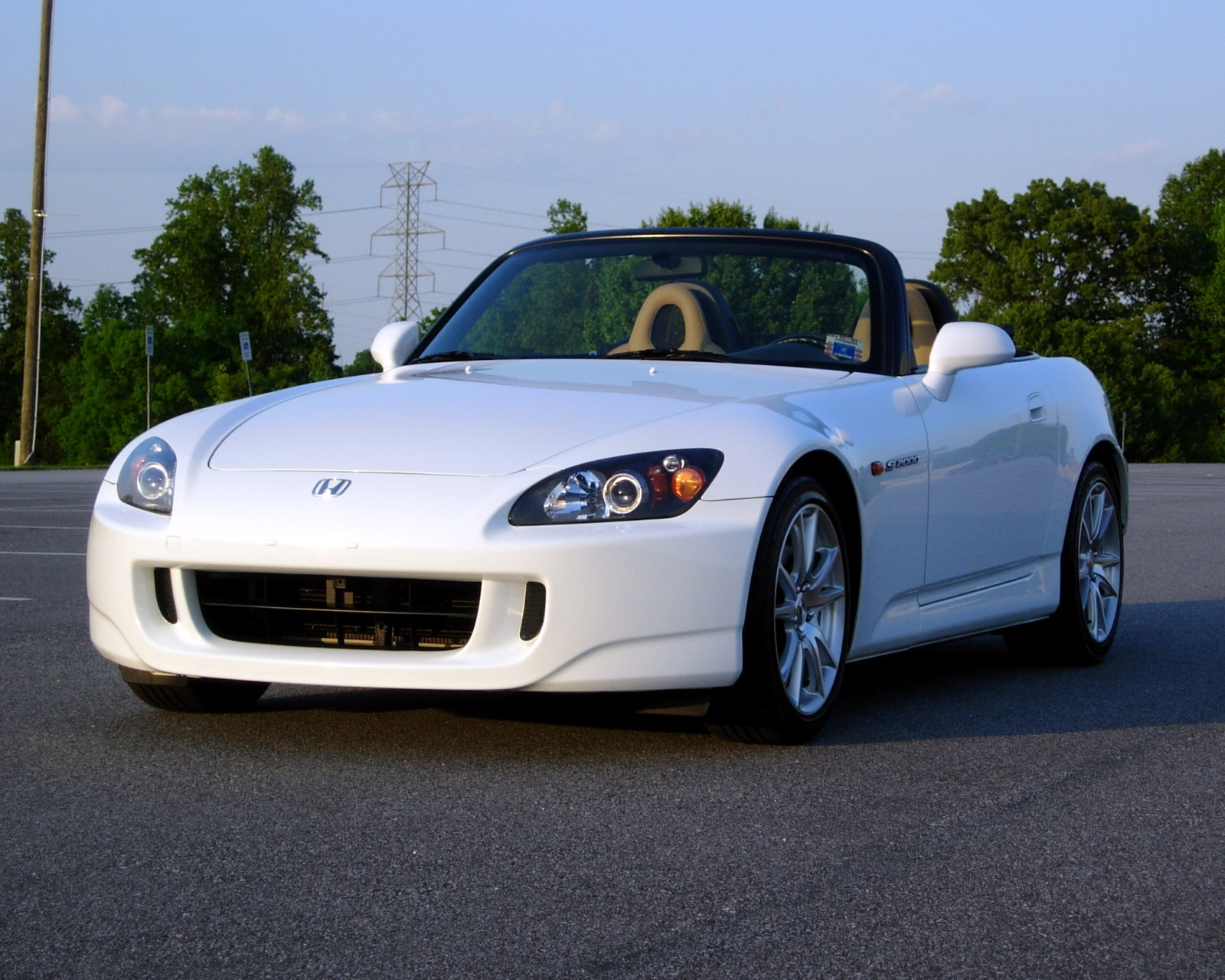 Honda S2000